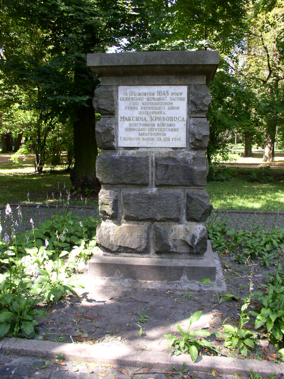 High castle. Lviv, Ukraine.